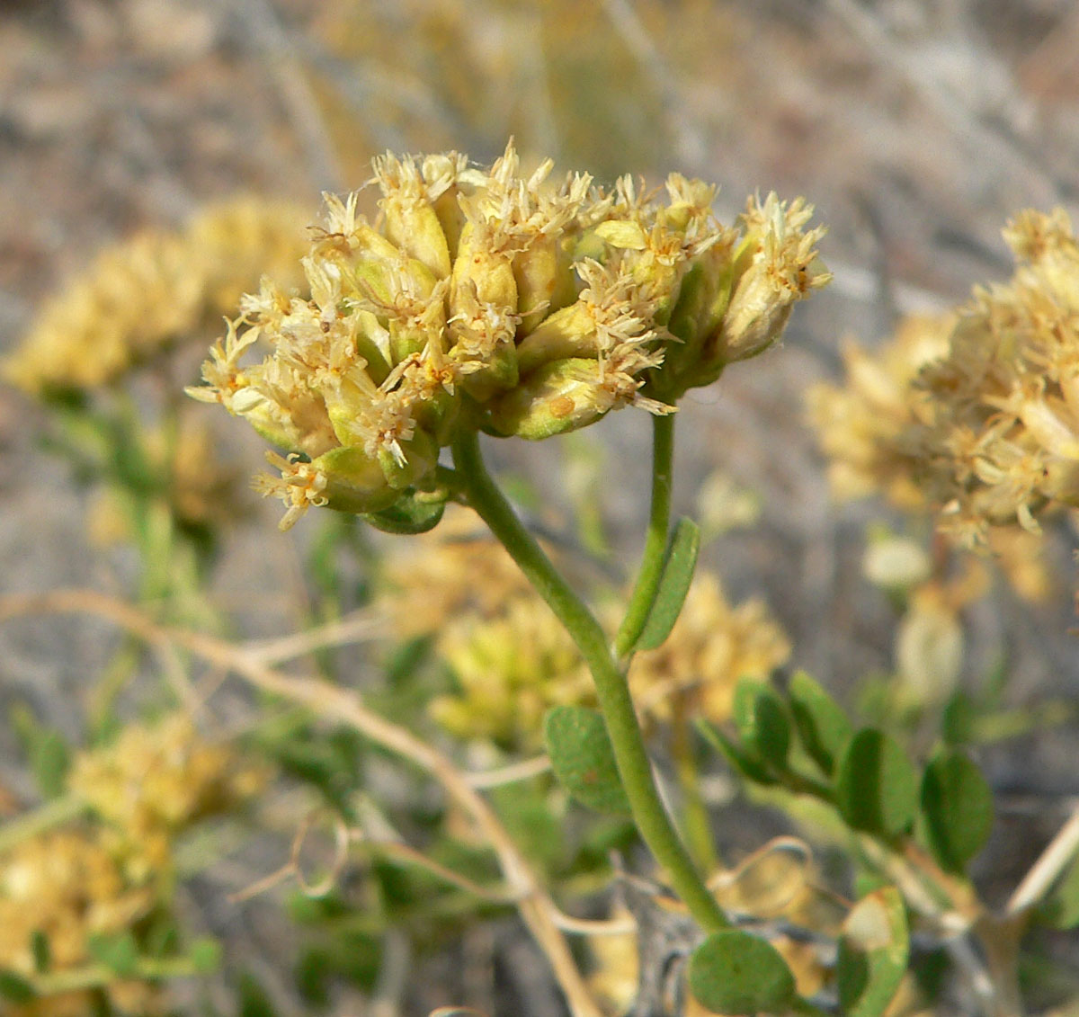 Amphipappus fremontii at upper end of Moapa Valley off Warm Springs Road, southern Nevada